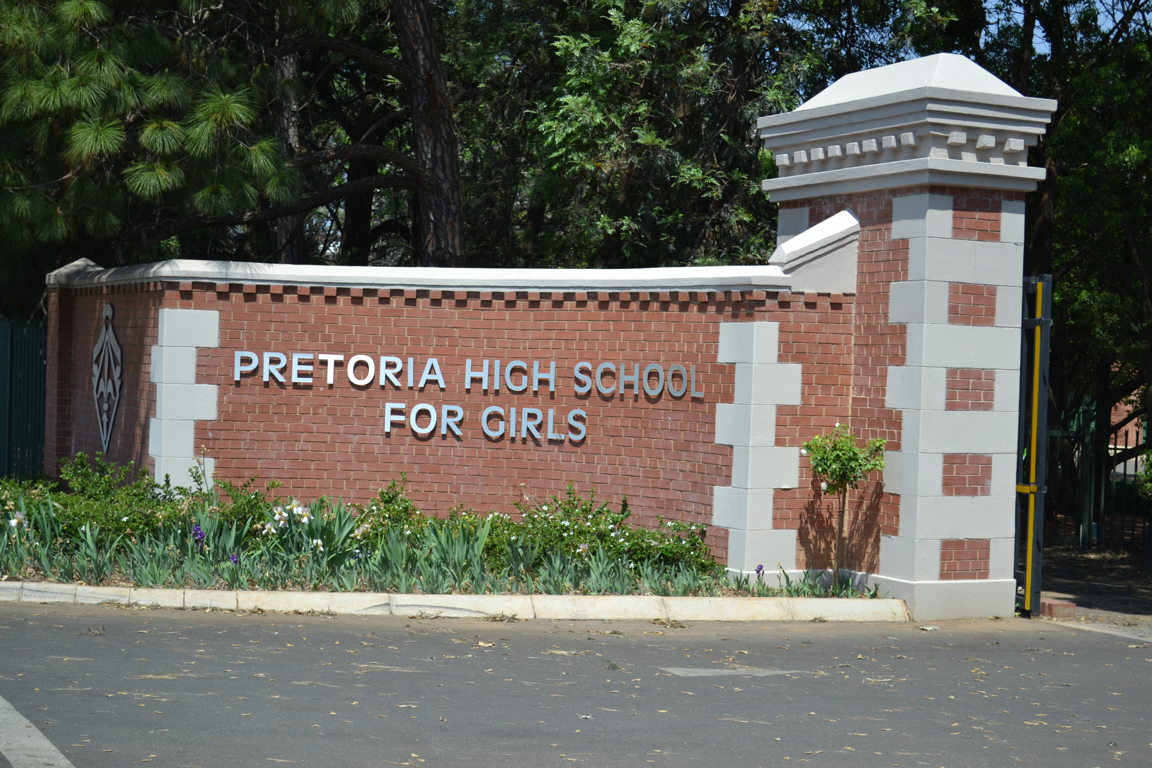 Pretoria High School for Girls Park Street Pretoria This media shows a South African Protected Site with SAHRA file reference 9/2/258/0065 .